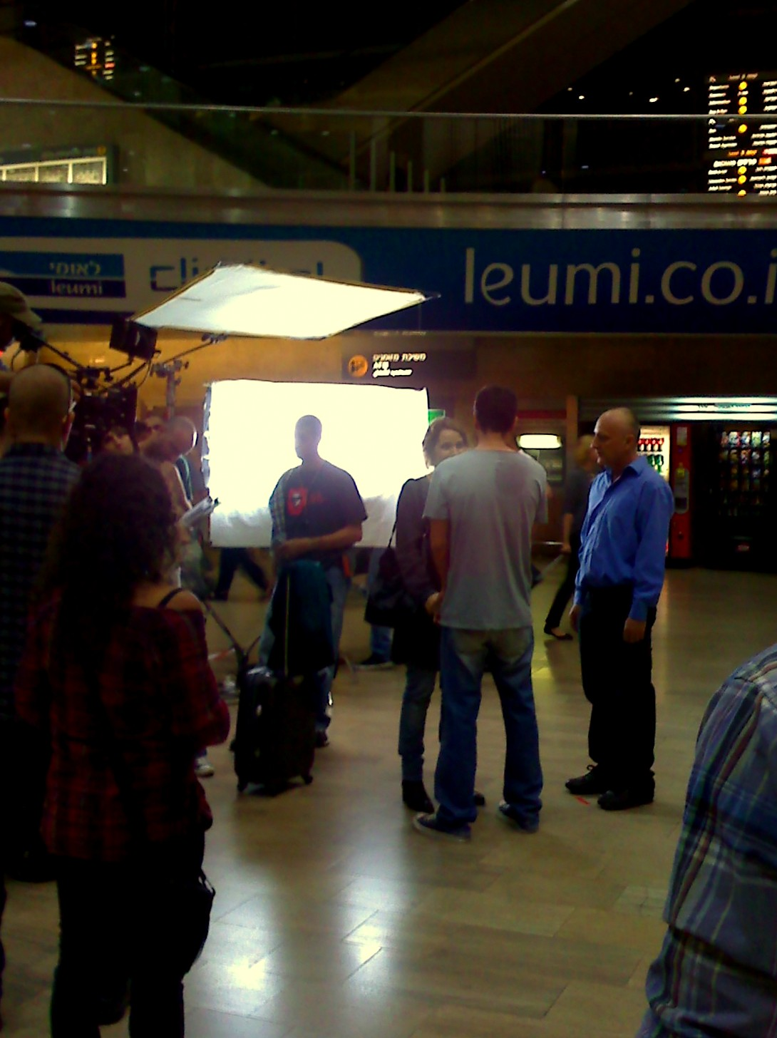 Shooting a scene from the Israeli TV series Hatufim ("Prisoners of War"), season 2. The scene takes place in the Arrivals Hall of Terminal 3, Ben Gurion Airport, Israel. It was filmed at the original location on the night between June 6 and 7, 2011. It is from episode 11, "Our Woman in Damascus" (Original air date: December 17 2012). In the scene, Uri Zach (played by Ishai Golan) meets Nurit (actress Mili Avital), who comes back from Syria. Also arriving to meet her is Dr. Haim Cohen (actor Gal Zaid). The scene lasts approximately 46 seconds during the episode, whilst the work of shooting it took more than a hour long. Unfortunately, arriving by chance to the set, I only had my cell phone for taking pictures, hence the quality of the pictures...